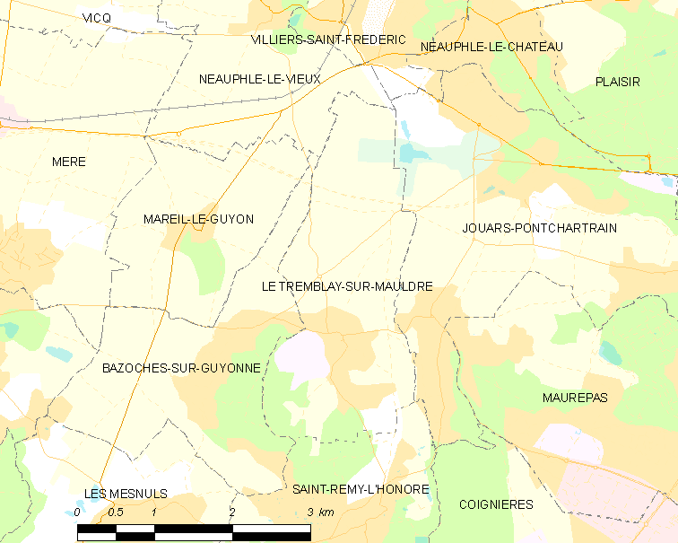 Map of French municipality Le Tremblay-sur-Mauldre